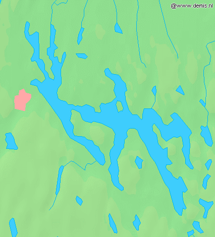 Sommen (lake) in Sweden. Bounding box West 14.92°, South 57.86°, East 15.45°, North 58.17°. Center at 58°00′54″N 15°11′06″E / 58.01500°N 15.18500°E.